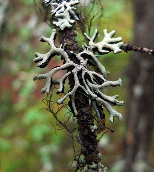 Lichen, Kananaskis Country, Alberta, Canada